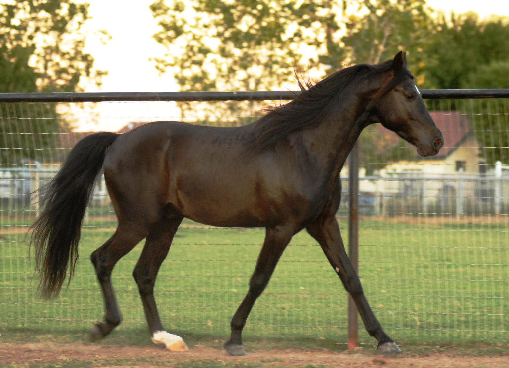 Missouri Fox Trotter, Smoky Black, Stallion, Quick Trigger in natural gait